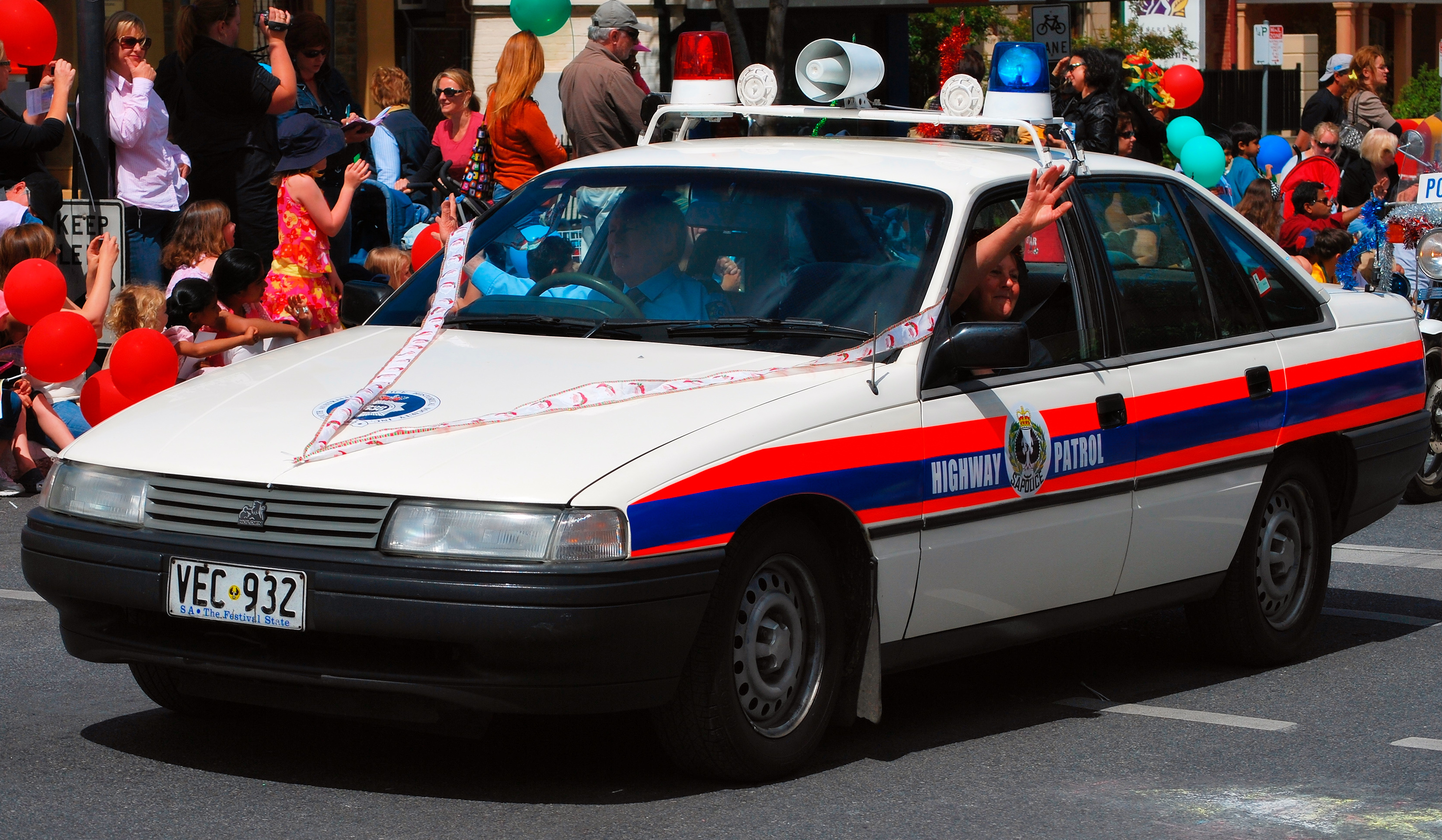 1989–1991 Holden Commodore (VN) Executive (BT1) sedan SA Highway Patrol South Australia Police car at the 2008, Norwood Christmas Pageant, Adelaide South Australia. This one was built after 1 July 1989 due to the fitment of a centre high-mount stop light as required under law.